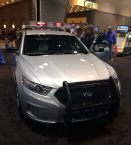 Connecticut State Police Cruiser Sedan